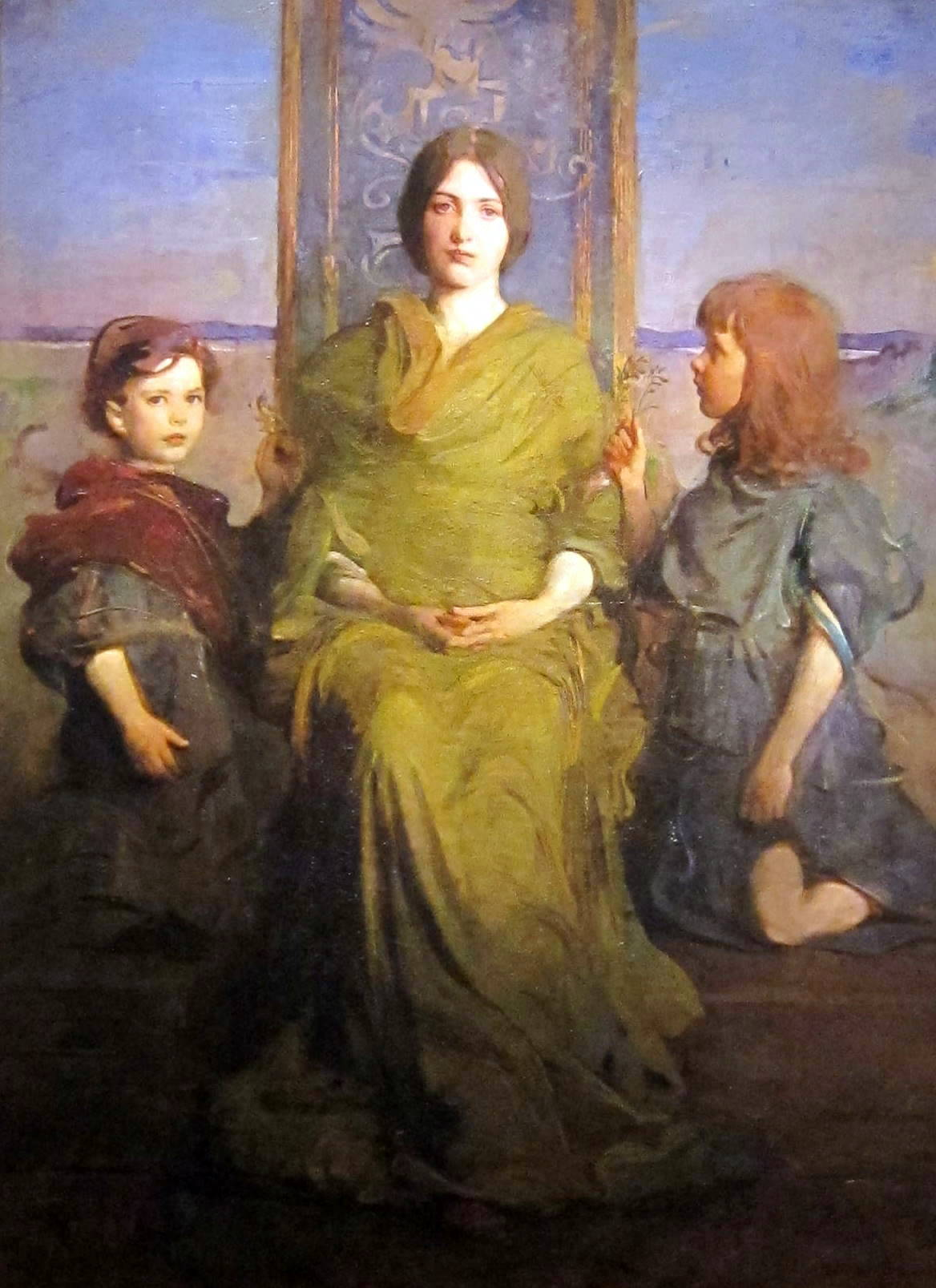 Virgin Enthroned